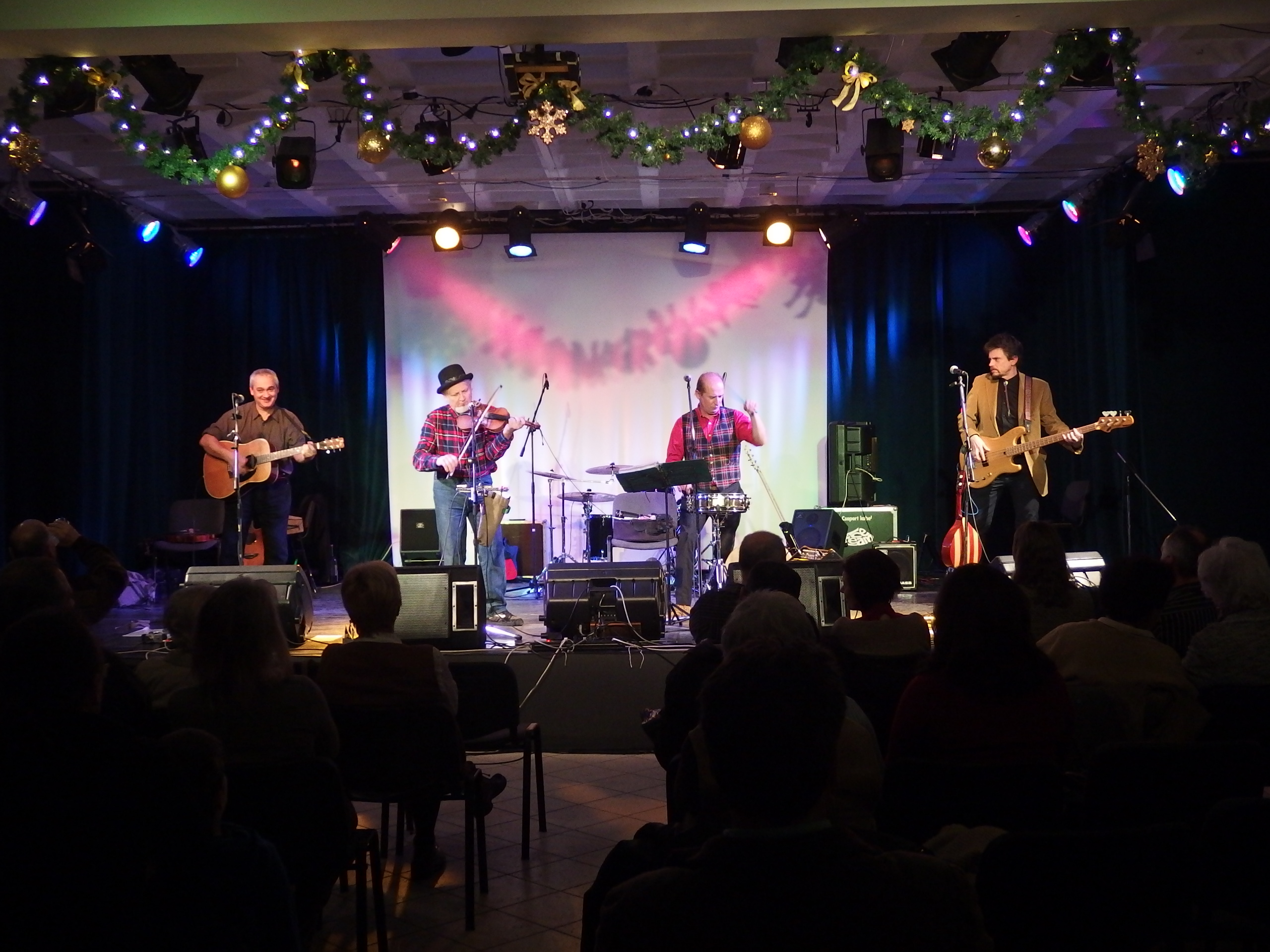 The M.É.Z. Hungarian Irish-Scottish music band Christmash concert, Budakalász Cultur Center